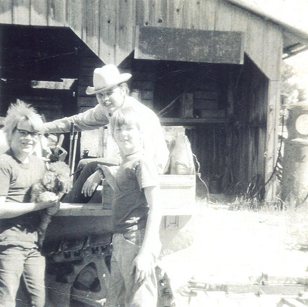 One of the earliest photos of Cecil De Loach working his ranch, it includes his two sons Michael and John, and one of their dogs, "Puppy". De Loach is shown seated on his Caterpillar 22 narrow gauge tractor in front of the ranch barn.